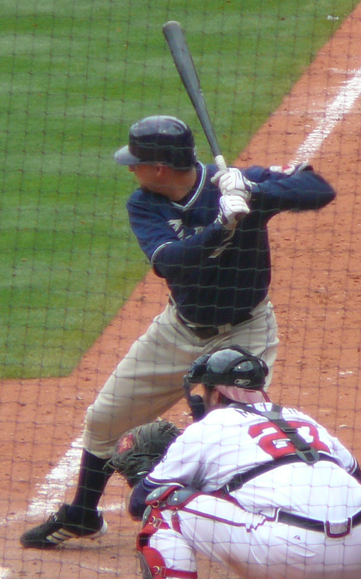 Please attribute this photo by name if used in places other than Wikipedia. 06:57, 29 May 2008 . . Chrisjnelson . . 510×817 (384 KB)